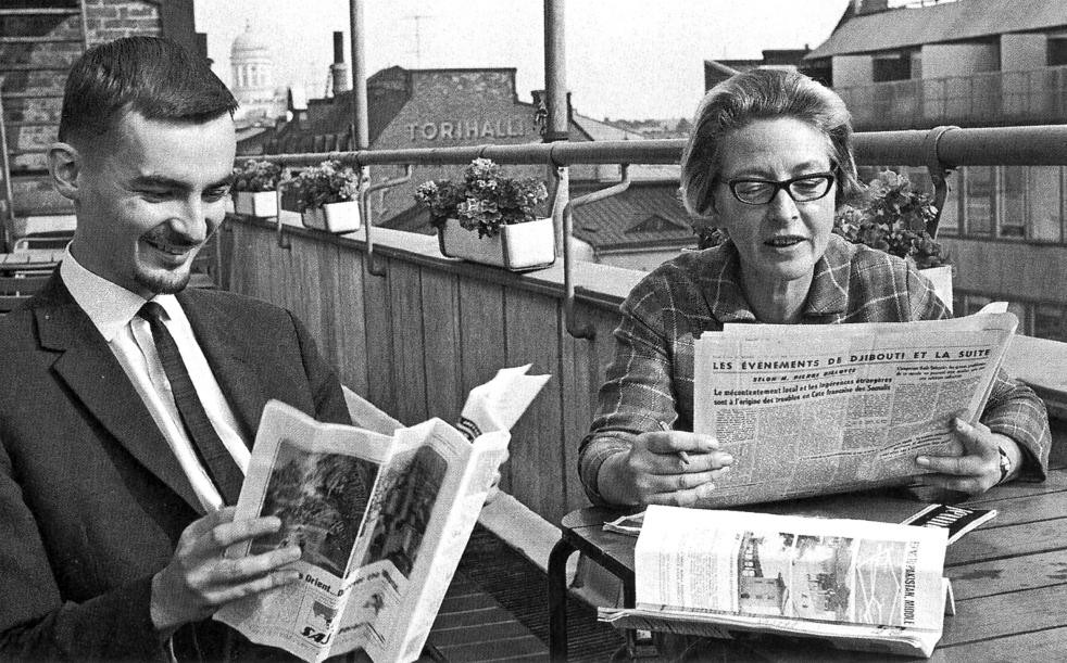 Photograph of the Finnish journalists Mikko Valtasaari (1942–) and Paula Porkka (1914–2011) at Yleisradio building, Unioninkatu, Helsinki.